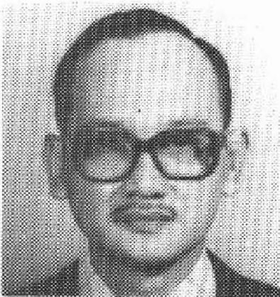 Official portrait of Hardjantho Soemodisastro as the vice chairman of the People's Representative Council in 1977.